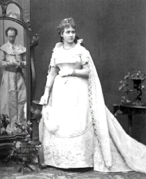 Soprano Yuliya Platonova as Marina in Boris Godunov 1874